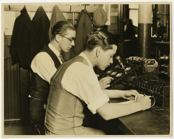 Description: Vocational guidance, Hebrew Technical Institute, circa 1920 Creator/Photographer: Myers, Hiram Medium: Black and white photographic print Date: ca. 1920 Persistent URL: Repository:American Jewish Historical Society Parent Collection: National Jewish Welfare Board Records Call Number: I-337 Rights Information: No known copyright restrictions; may be subject to third party rights. For more copyright information, click here. See more information about this image and others at CJH Digital Collections. To inquire about rights and permissions, or if you have a question regarding the collection to which the image belongs, please contact the Reference Department of the American Jewish Historical Society by email. Digital images created by the Gruss Lipper Digital Laboratory at the Center for Jewish History.